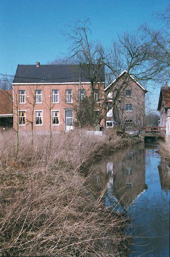 Watermill Herbodinnemolen, Londerzeel, Belgium